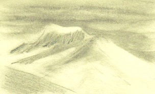 Mount Liabrekulen in Luster, Norway, drawn on a small yellow note paper.